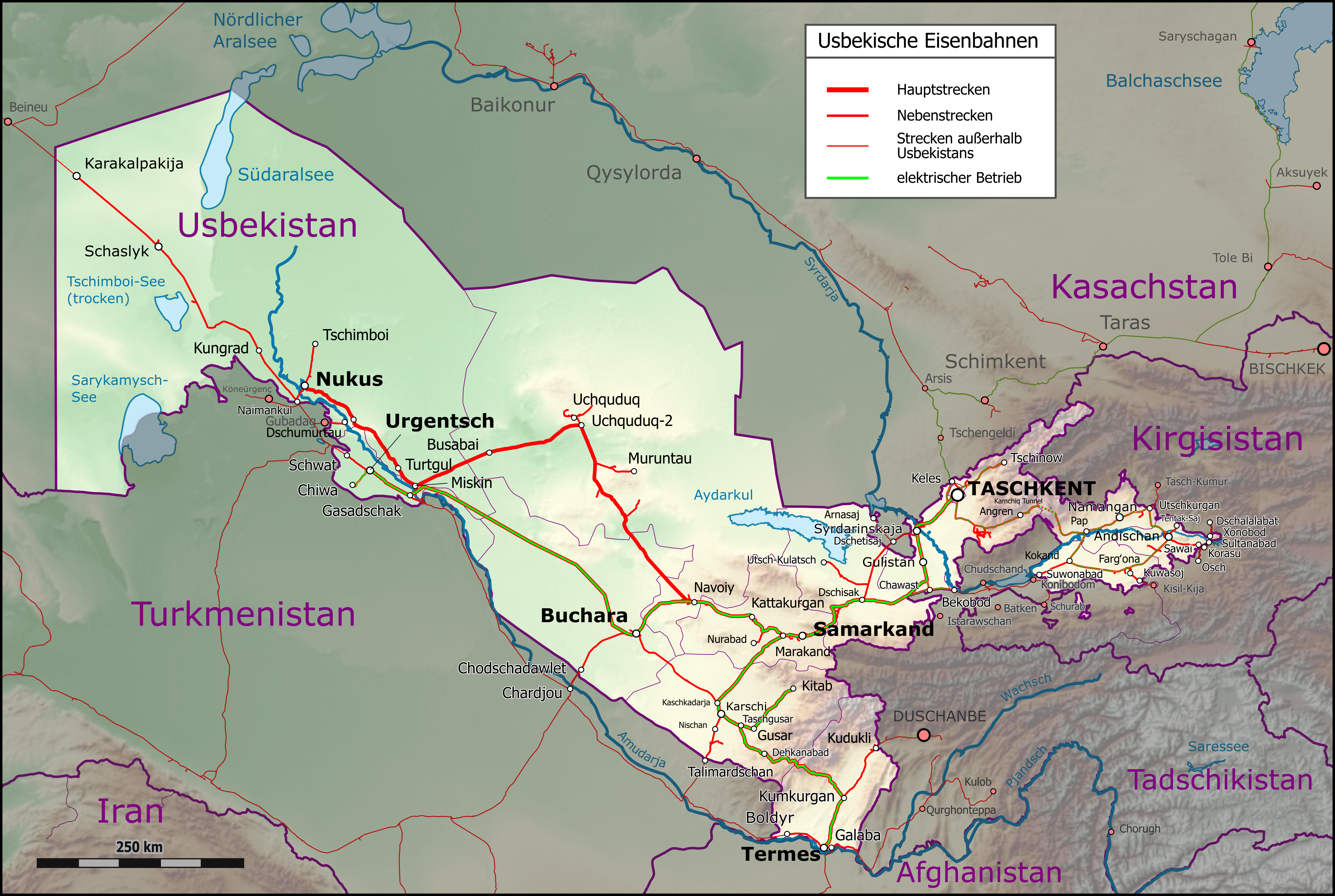 Map of Uzbek Railways network. Caption in German